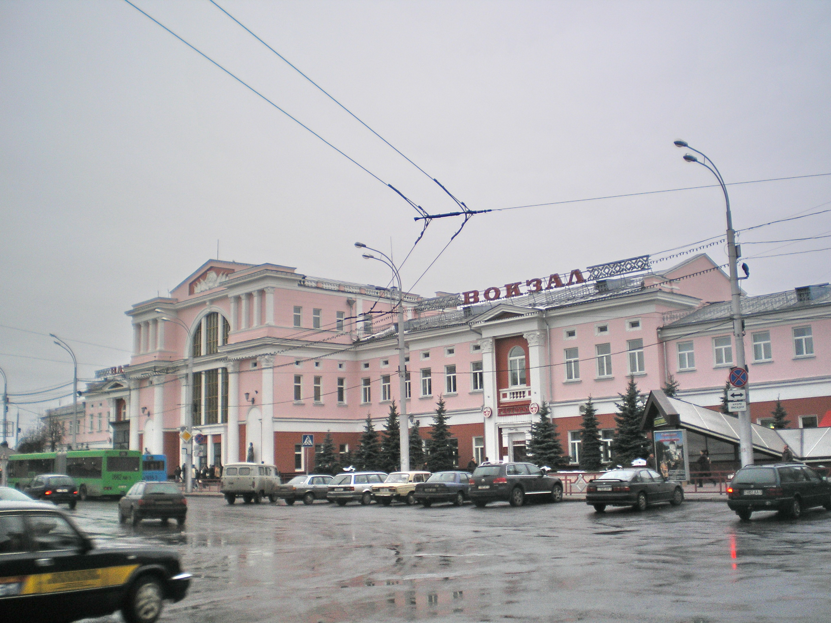 Railway Station in Gomel